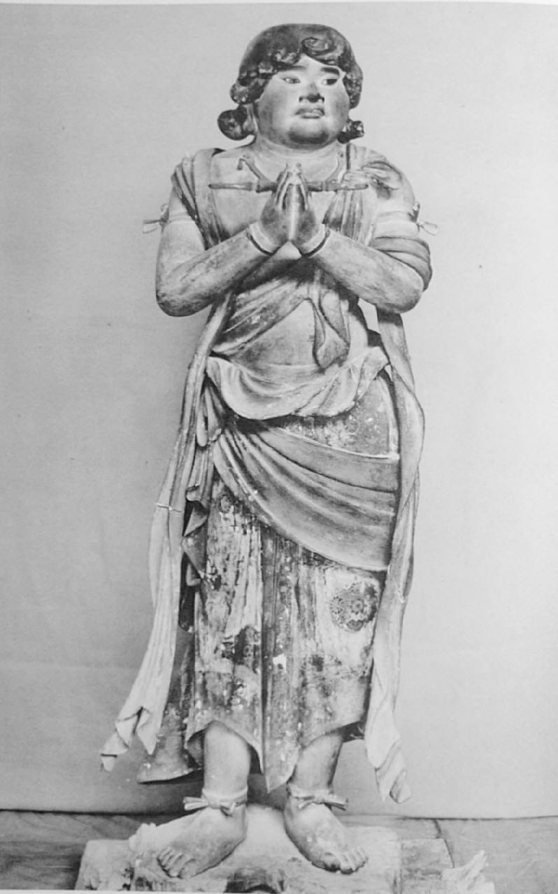 Kimkara: one of the Eight Statues of 'Hatidai Dosi' in Kongobuji Monastery, Wakayama, Japan. 96cm height, 13th century